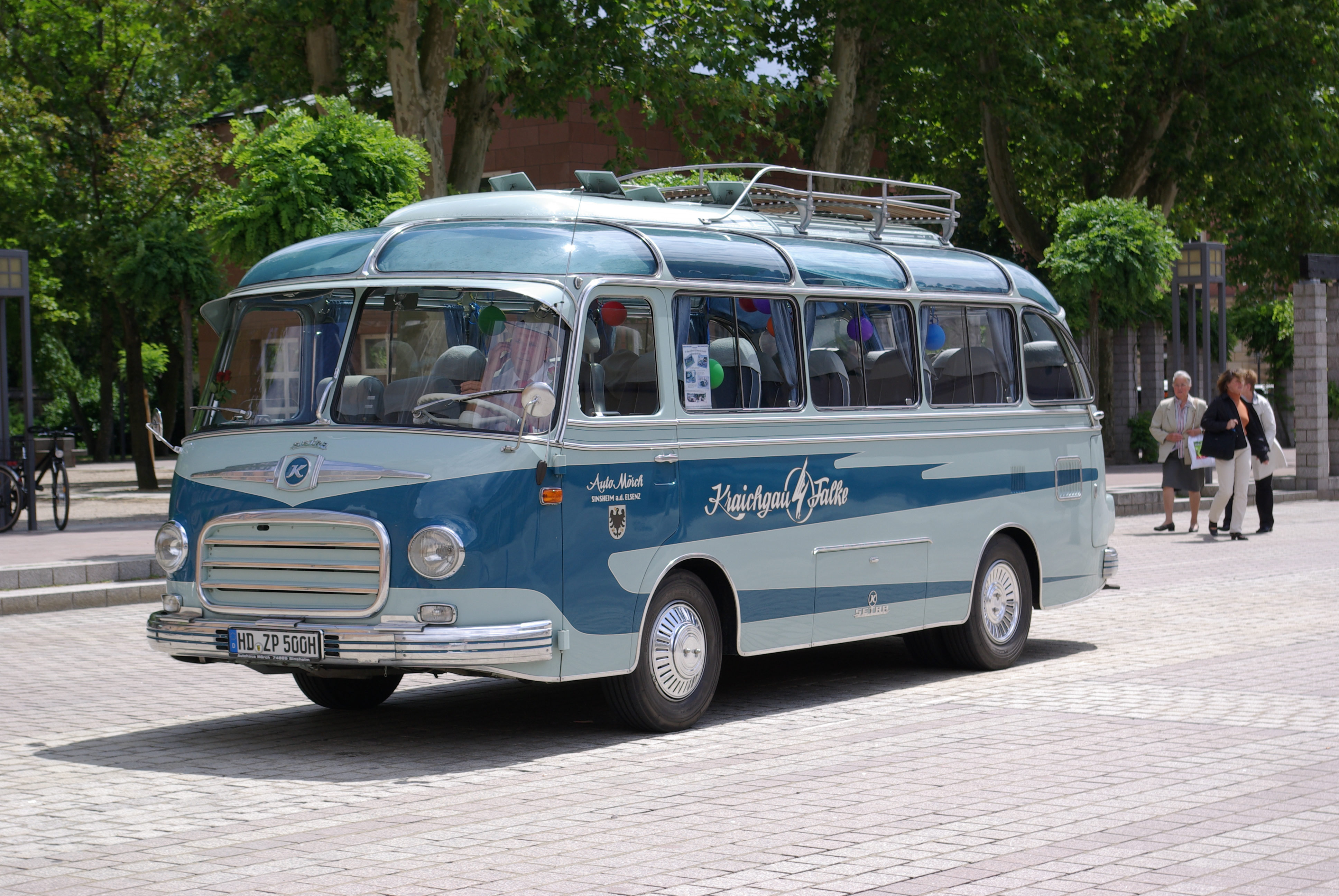 Kässbohrer Setra S 6 bus (HD-ZP 500H) in Speyer, Germany. Built about 1955.